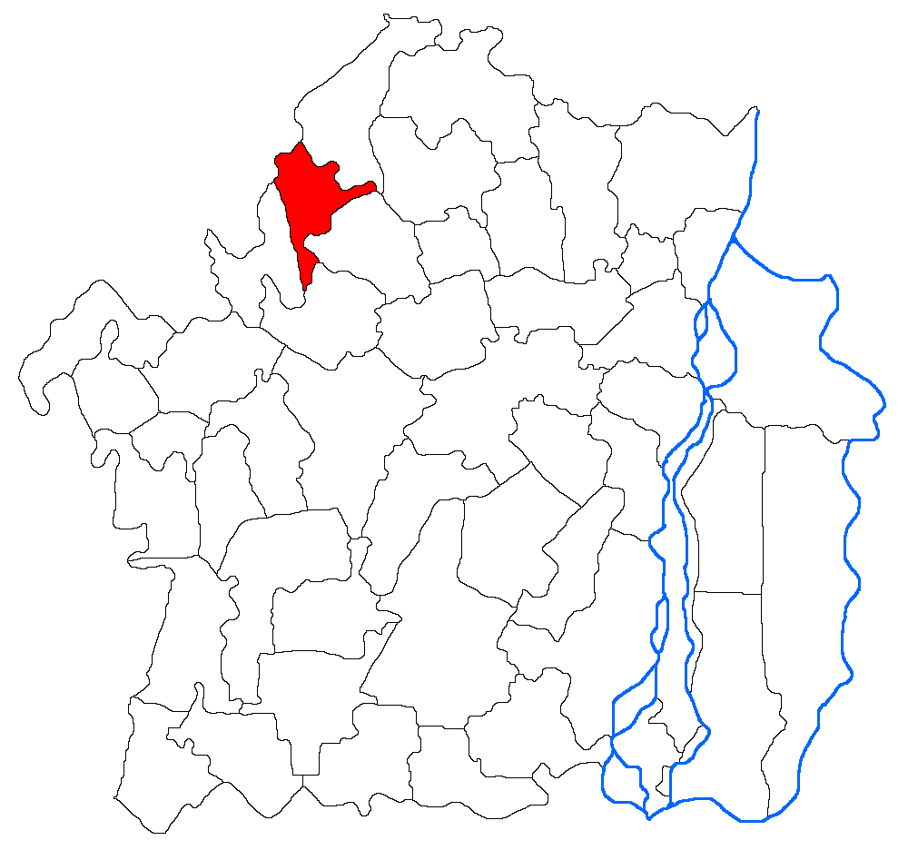 Limits of the commune of Racoviţa in Brăila County, Romania